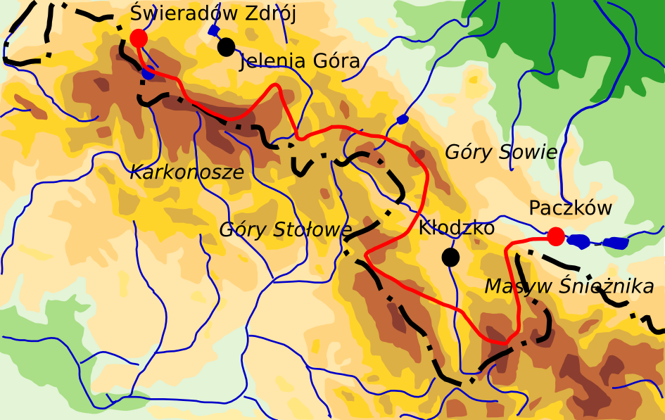 Map of Sudetes